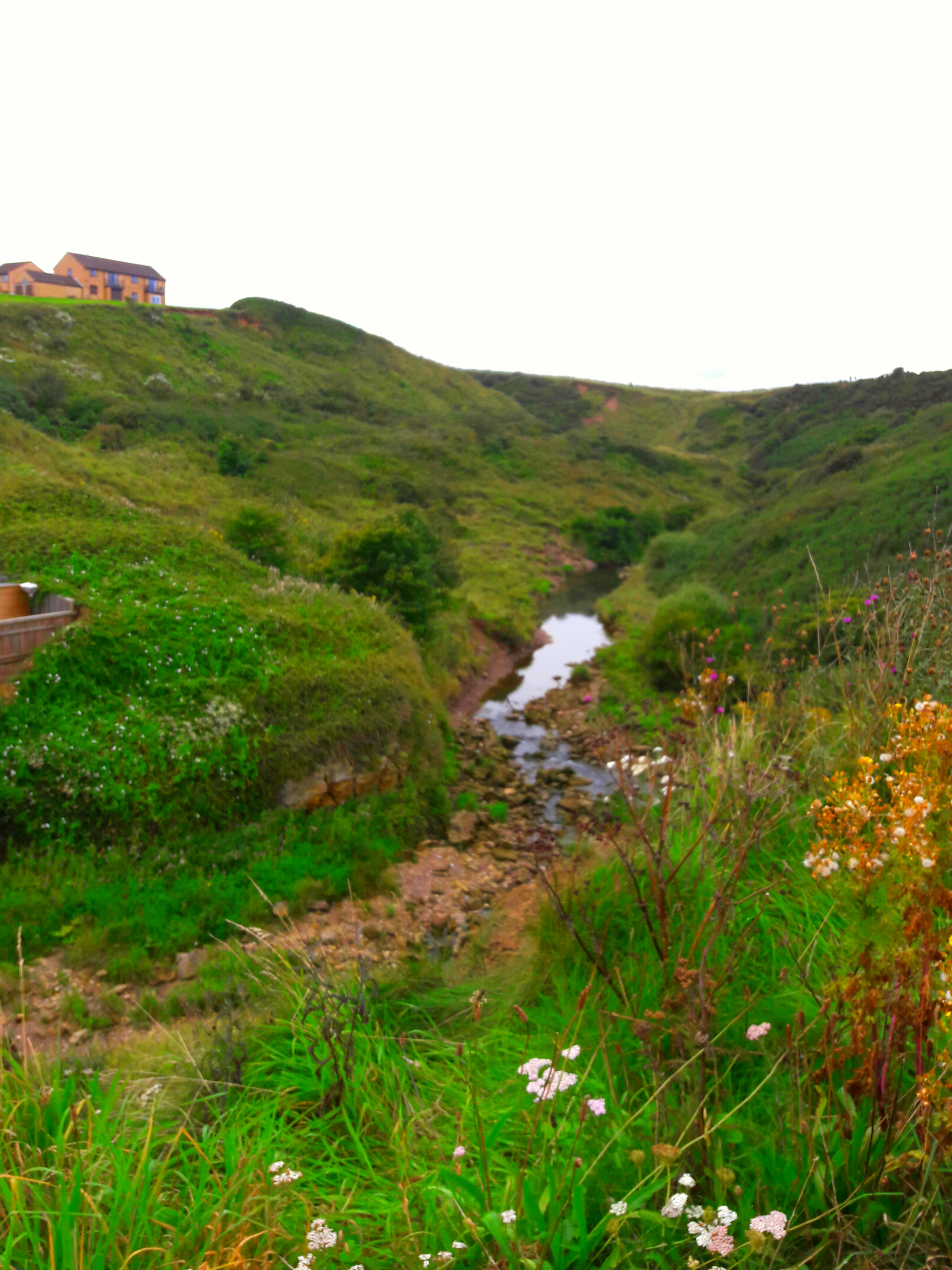 Scarborough natural landscape and hills.